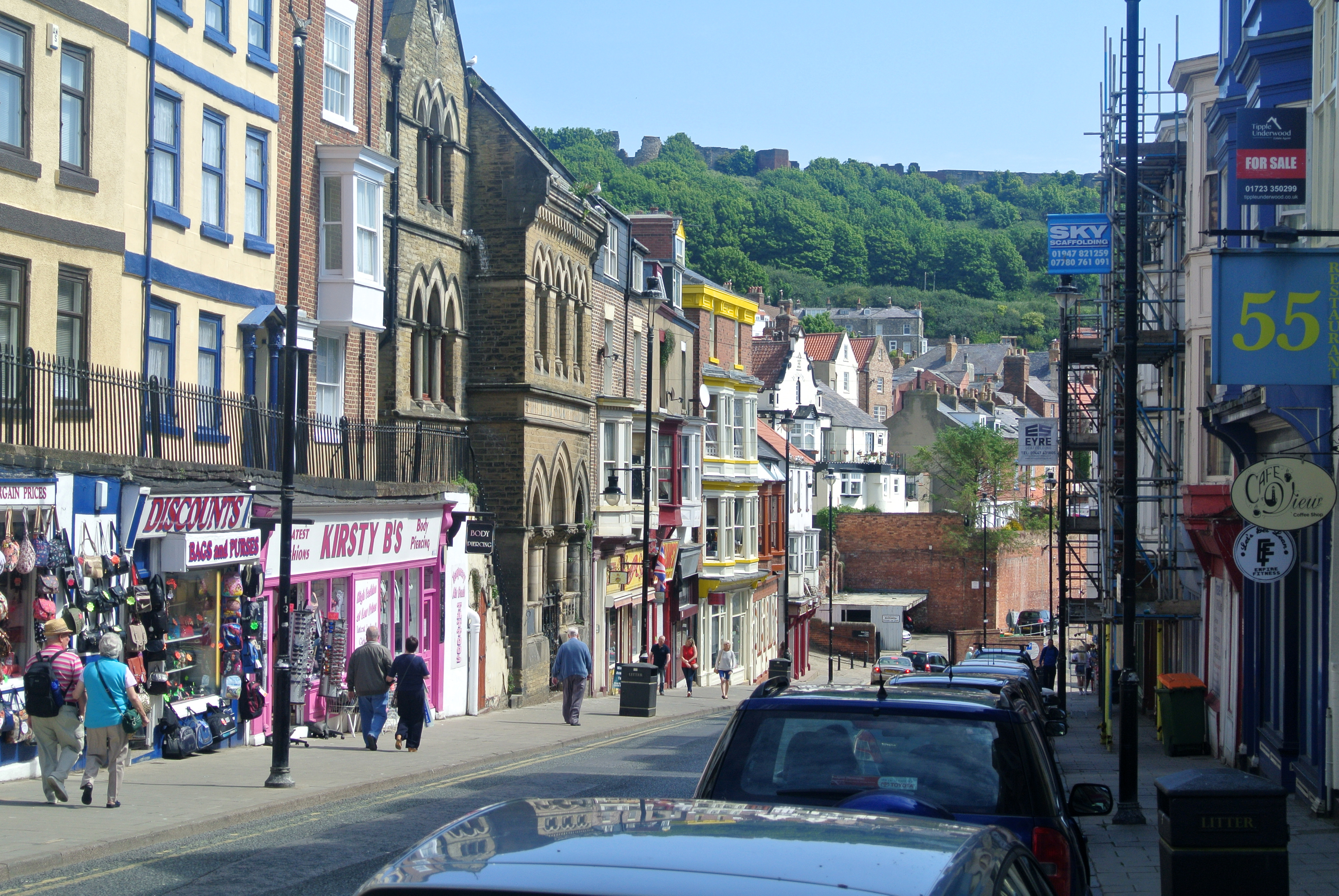 Eastborough Street, Scarborough, England. Scarborough Castle on skyline.